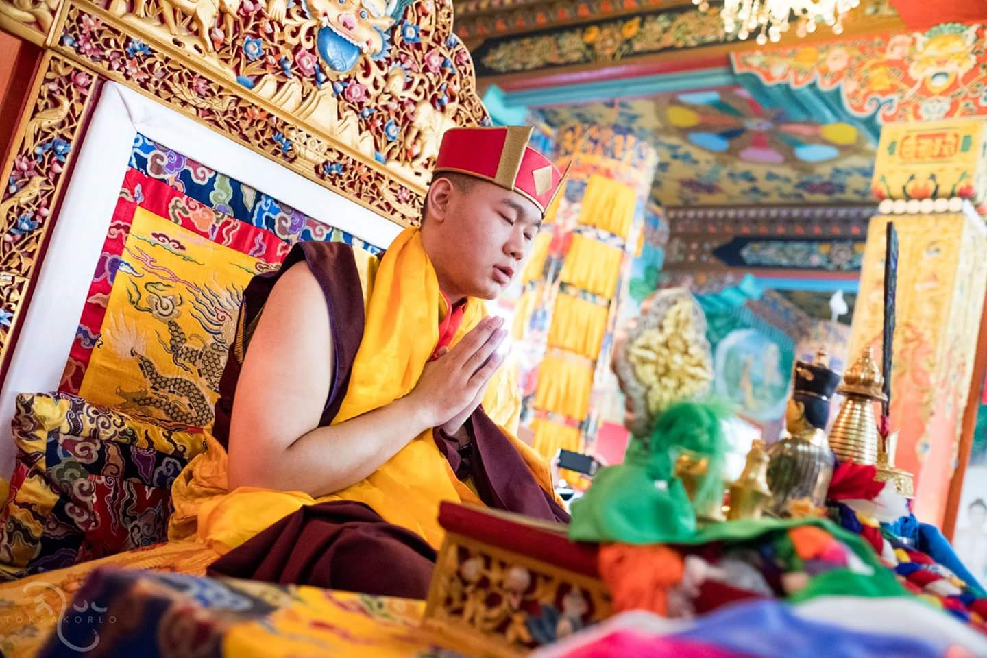 4th jamgon kontrul rinpoche with red hat